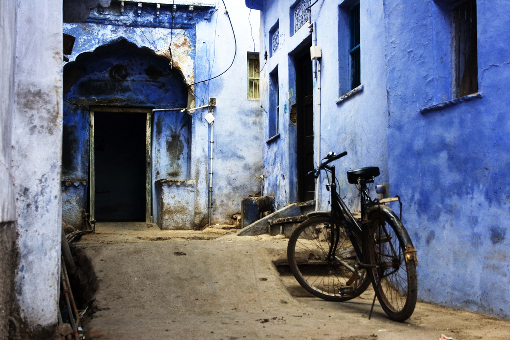 Bundi is a beautiful and relax place in Rajasthan. The old city is mainly blue though some houses are other colours too. There are lots of scenes like this. I love the place and if you have chance I highly recommend it.